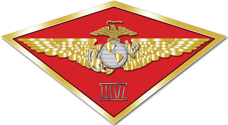 United States Marine Corps - Marine Air Wing IV crest. Made with Photoshop.